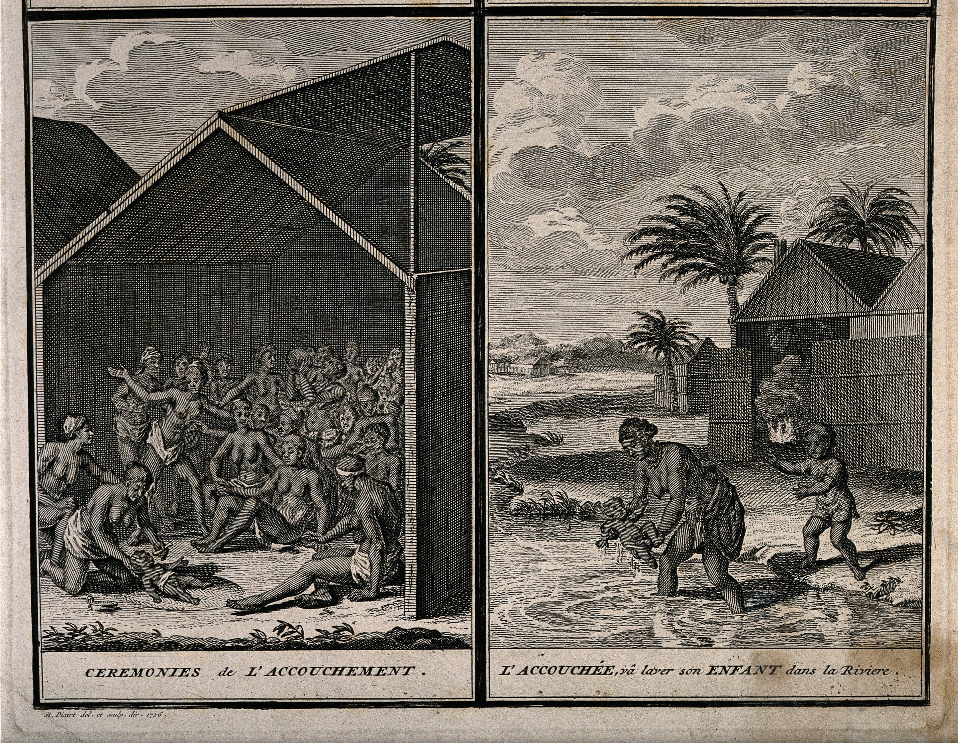 (Left) a celebration of the birth of a child, (right) the child's first bath. Etching by B. Picart after himself, 1726. Iconographic Collections Keywords: Bernard Picart